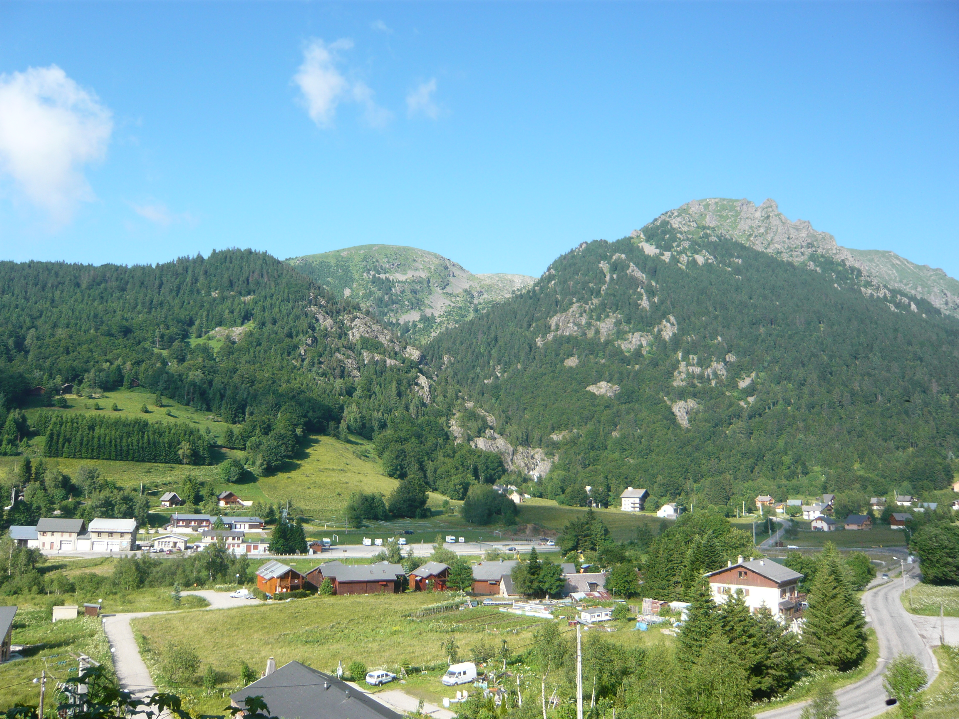 View of the village of La Morte (Alpe du Grand Serre). La Morte, Isère department, France. July 2008.